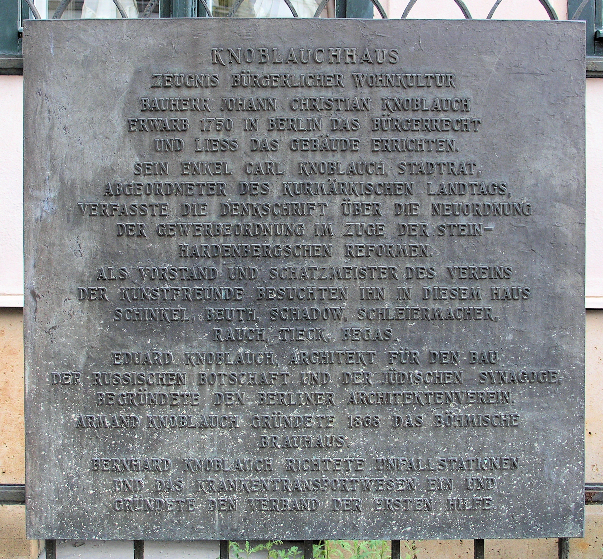 Memorial plaque, Knoblauchhaus, Poststraße 23, Berlin-Mitte, Germany Koordinate:52°30′59″N 13°24′25″E / 52.51639°N 13.40694°E